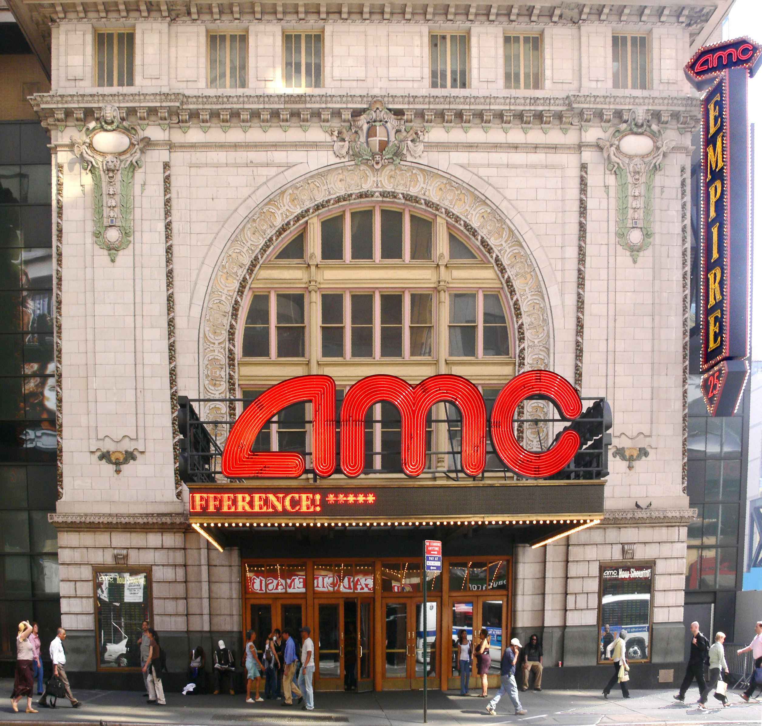 AMC Empire 25 (cinema) 234 West 42nd St. New York (Times Square), Manhattan, New York City